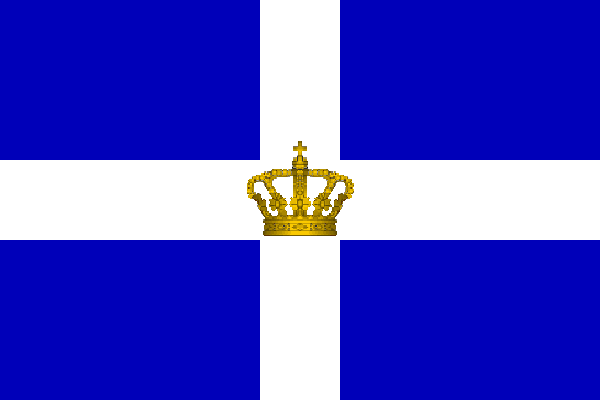 State and War Flag of the Kingdom of Greece on land, under the House Oldenburg dynasty (1863-1924 and 1935-1970). Royal crown superimposed on center of the plain cross civil flag.